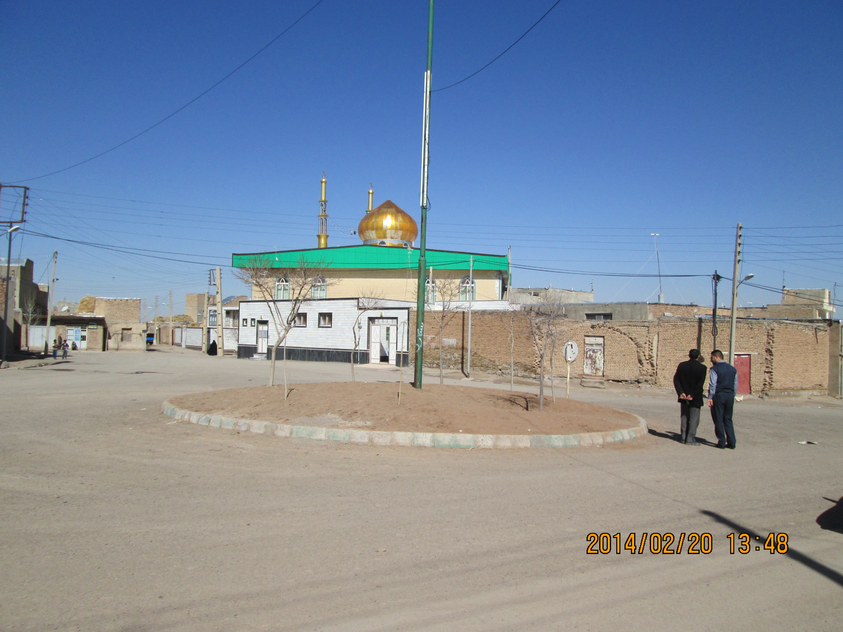 shrabian musque